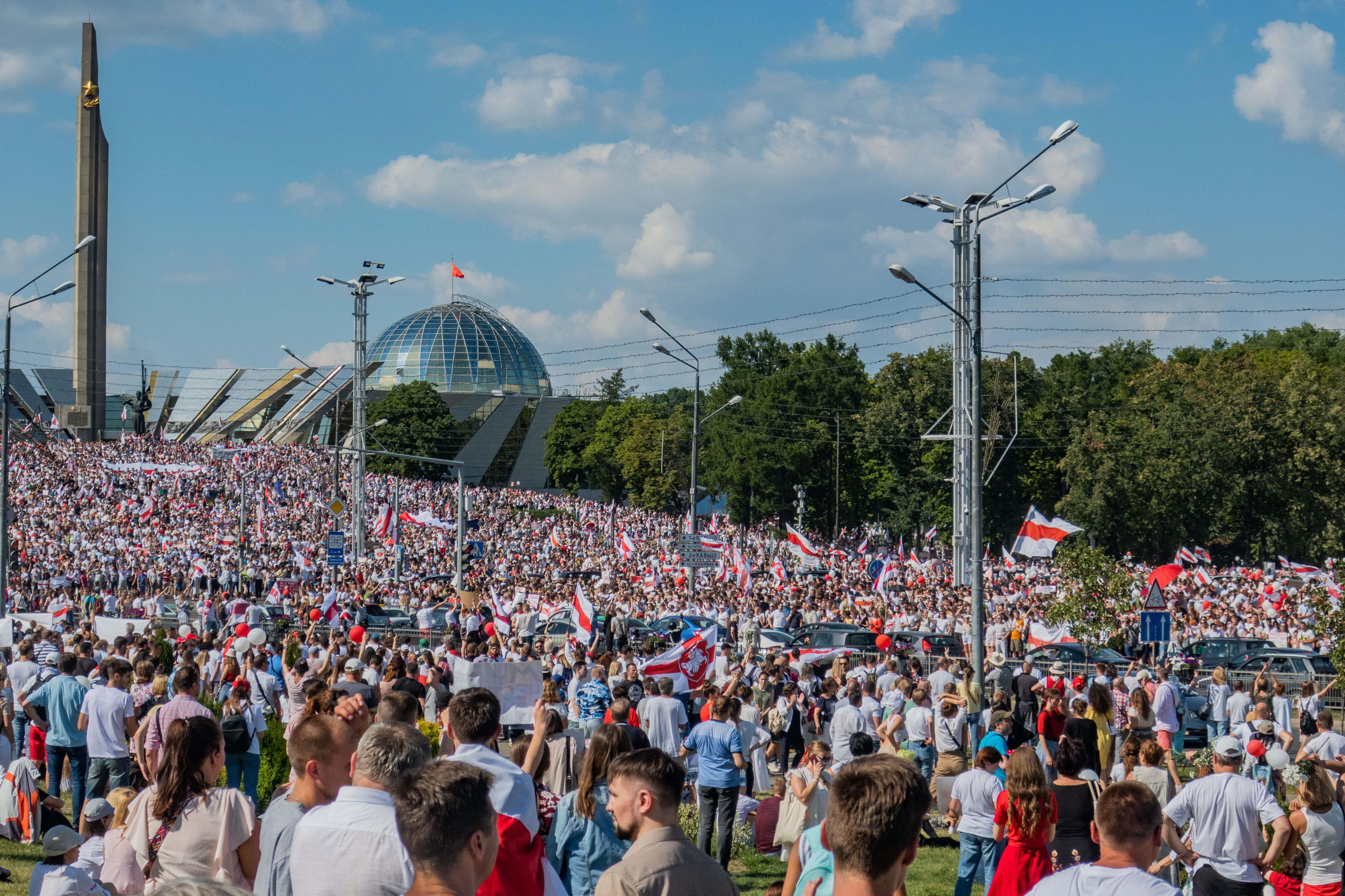 Protest rally against Lukashenko, 16 August. Minsk, Belarus